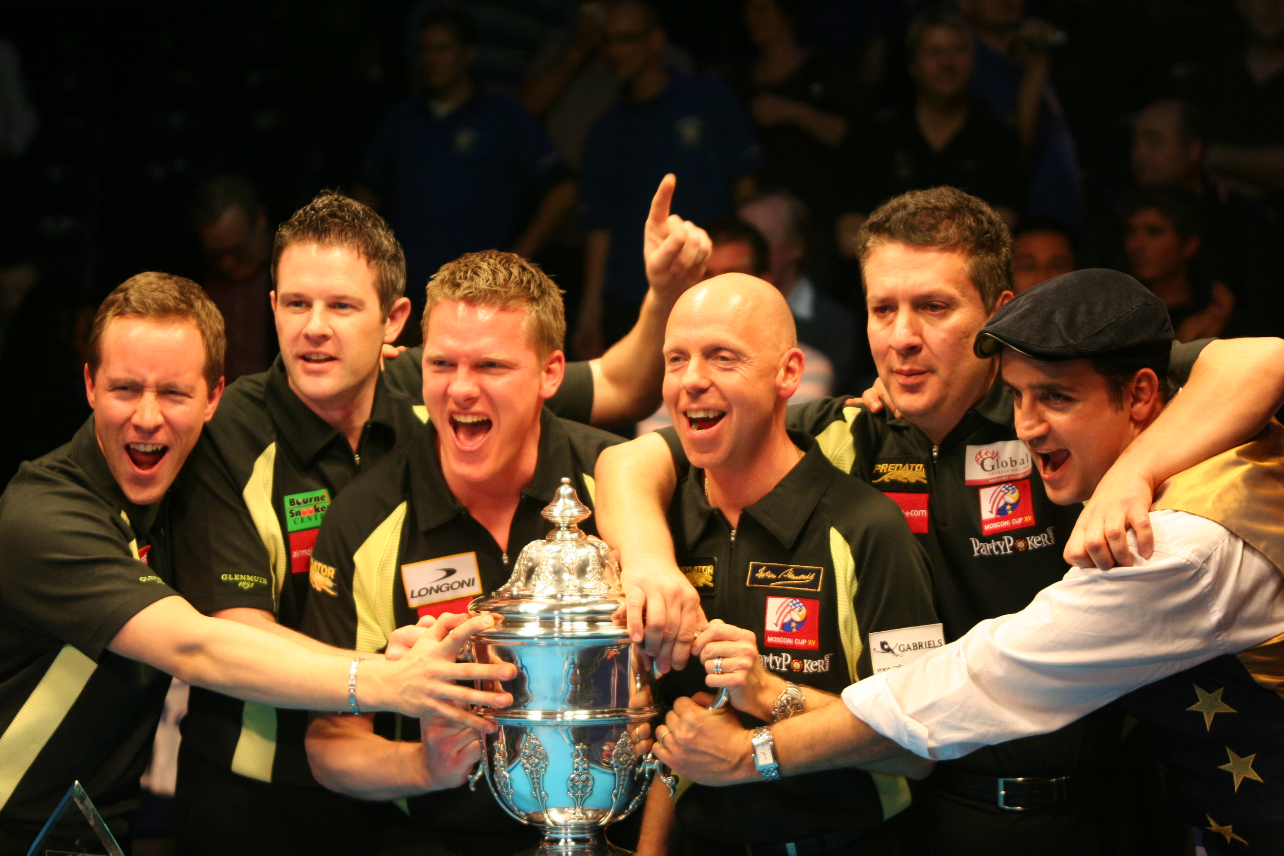 Winning European team at the Mosconi Cup 2008 in Malta.